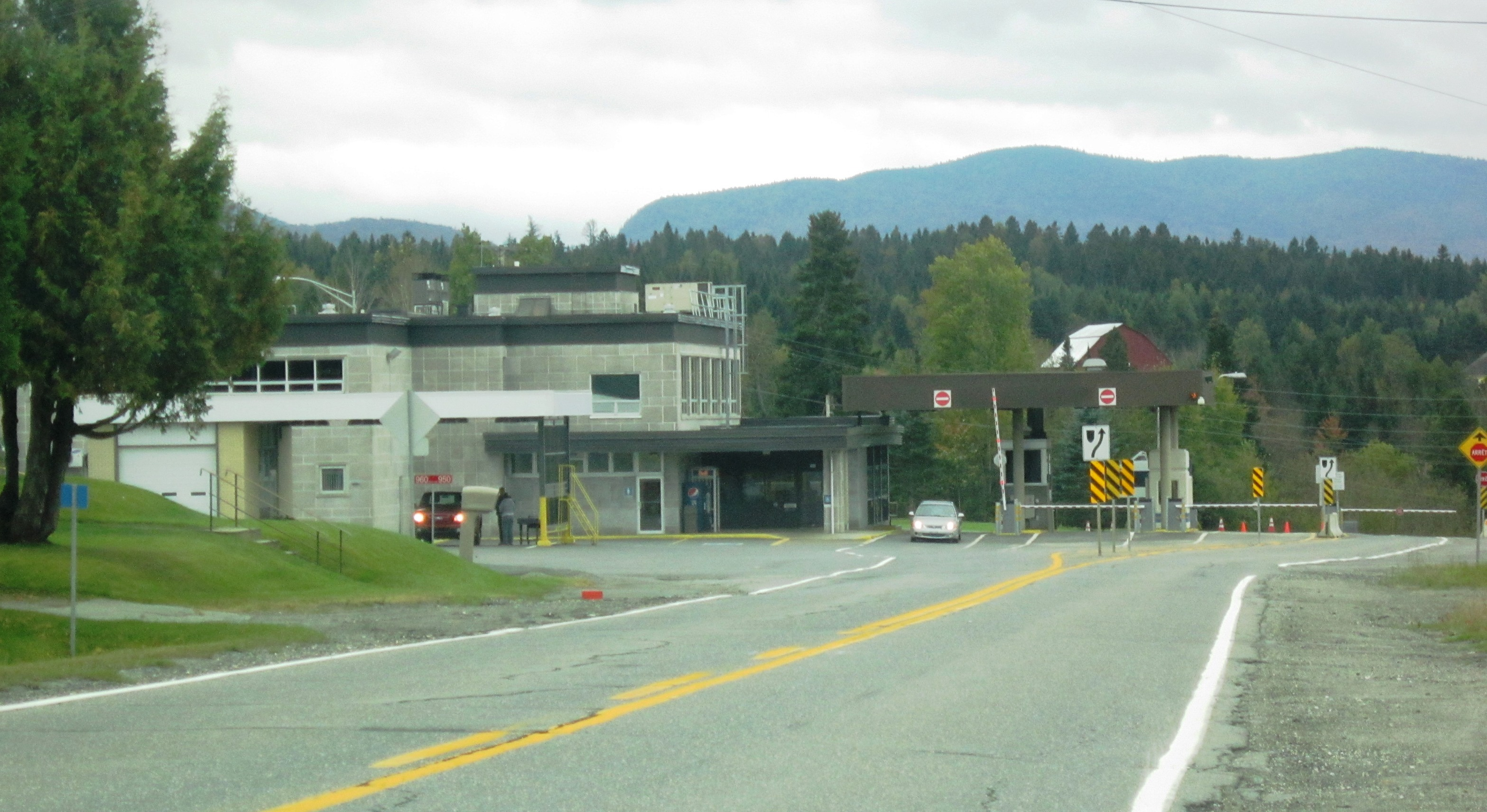 Canadian border inspection station at Stanhope Quebec, looking south